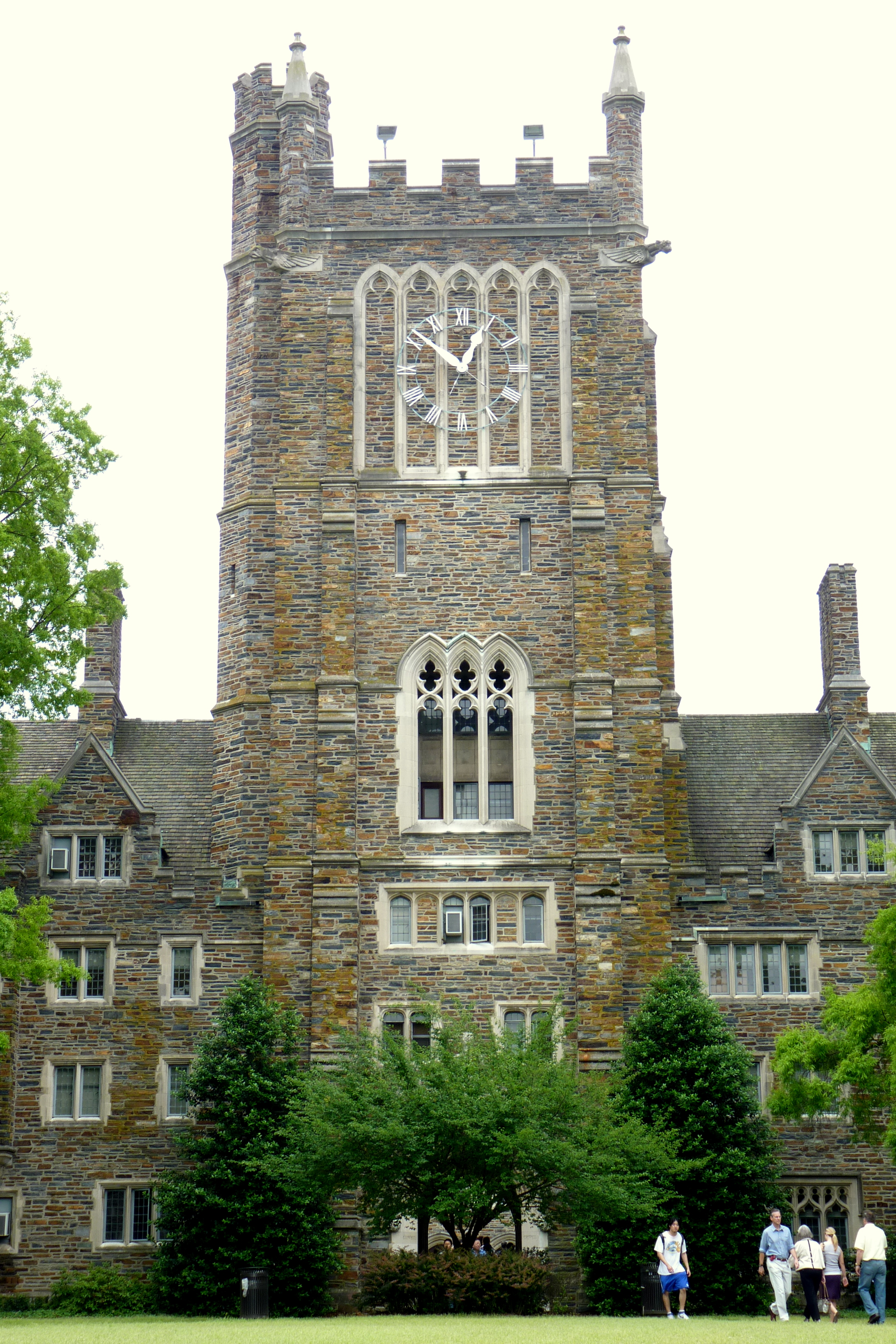 Duke University